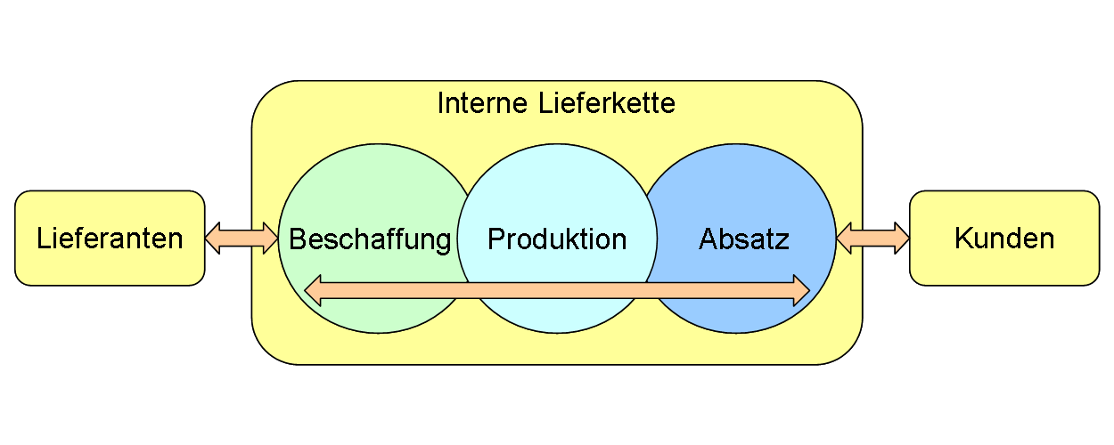 An illustration of a company's supply chain